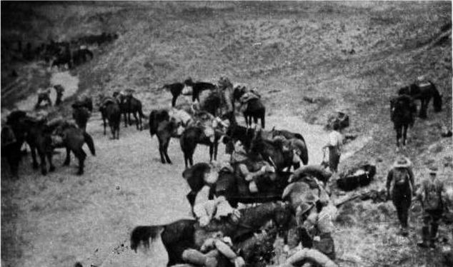 Canterbury Mounted Rifles Regiment Headquarters near In Seirat after First Battle of Gaza.